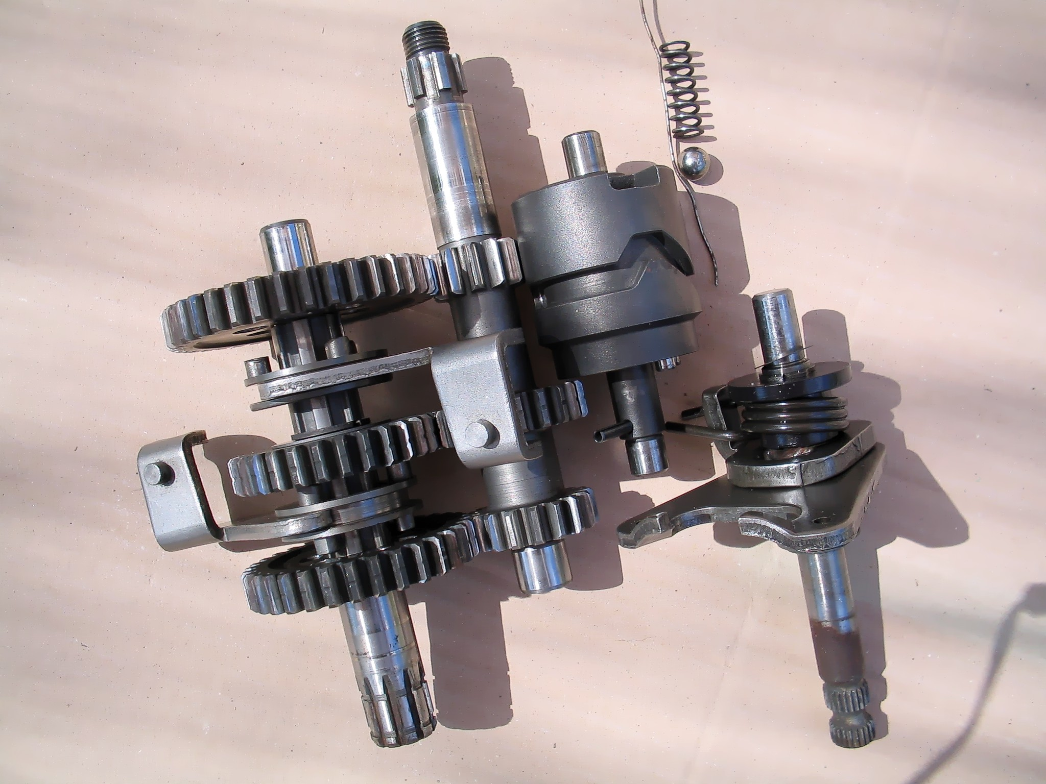 Change Minarelli AM3 in all its parts, it is possible to observe the "Dog-rings" / "selectors" of the gears, the ball spring plungers which act as ratchet and stabilize the position of the shift drum, fitted with only the track for both the shift forks and the gear selector which acts on the shift roller pins.